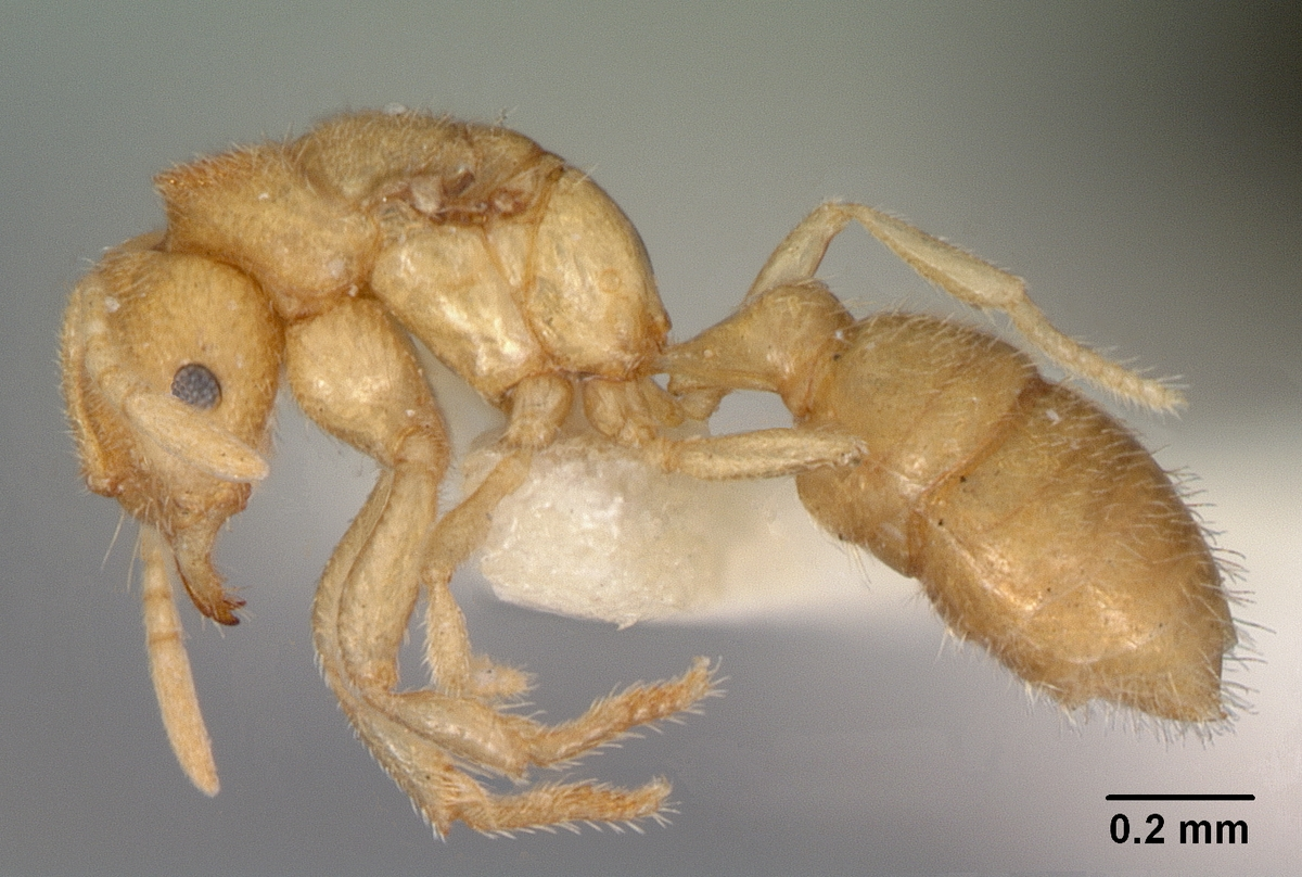 Profile view of ant Concoctio concenta specimen casent0102175.